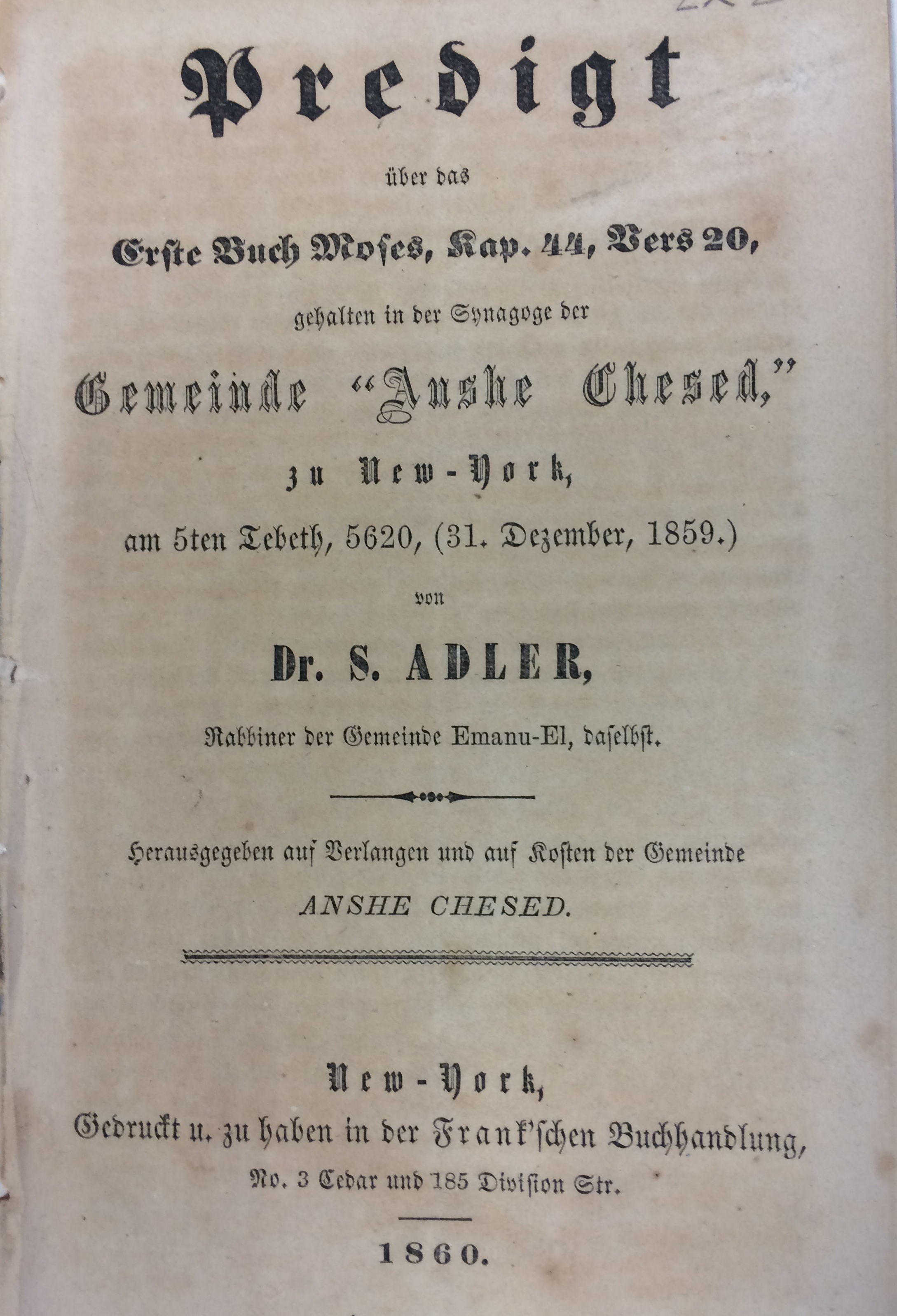 Cover title. From the Library of the Leo Baeck Institute in New York, call number r 785